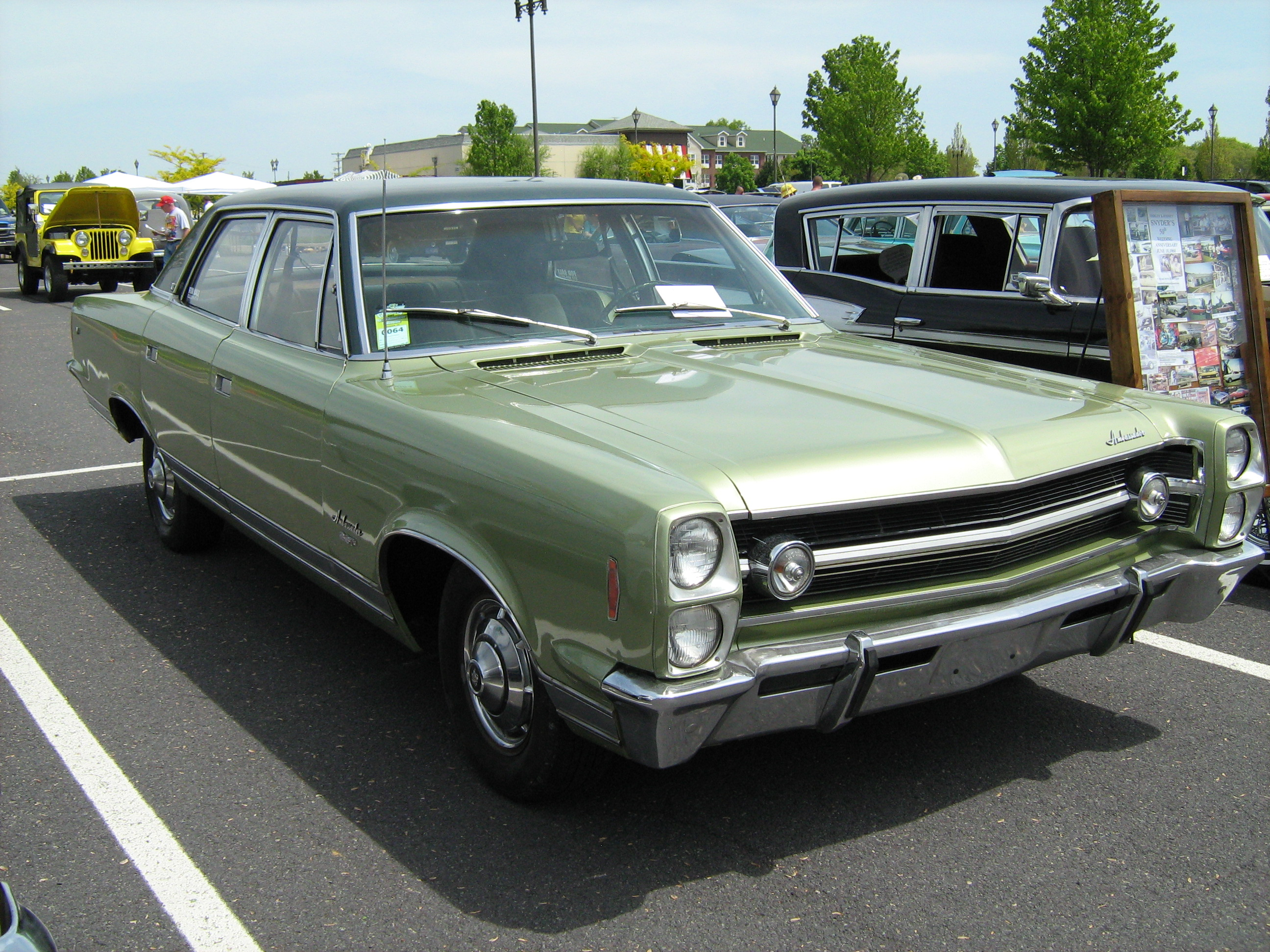 1968 Ambassador SST four-door sedan by American Motors Corporation (AMC). The first year of air conditioning as standard equipment on the Ambassador line. This car is finished in two-tone green paint with a matching interior. Picture taken at the "2010 AMC Invasion of Gettysburg" (Pennsylvania).